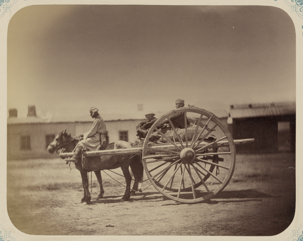 This photograph is from the ethnographical part of Turkestan Album, a comprehensive visual survey of Central Asia undertaken after imperial Russia assumed control of the region in the 1860s. Commissioned by General Konstantin Petrovich von Kaufman (1818–82), the first governor-general of Russian Turkestan, the album is in four parts spanning six volumes: “Archaeological Part” (two volumes); “Ethnographic Part” (two volumes); “Trades Part” (one volume); and “Historical Part” (one volume). The principal compiler was Russian Orientalist Aleksandr L. Kun, who was assisted by Nikolai V. Bogaevskii. The album contains some 1,200 photographs, along with architectural plans, watercolor drawings, and maps. The “Ethnographic Part” includes 491 individual photographs on 163 plates. The photographs show individuals representing the different peoples of the region (Plates 1–33); daily life and rituals (Plates 34–91); and views of villages and cities, street vendors, and commercial activities (Plates 92–163). Ethnographic photographs; Horse-drawn vehicles; Photographic surveys; Postal service; Turkic peoples; Wagons